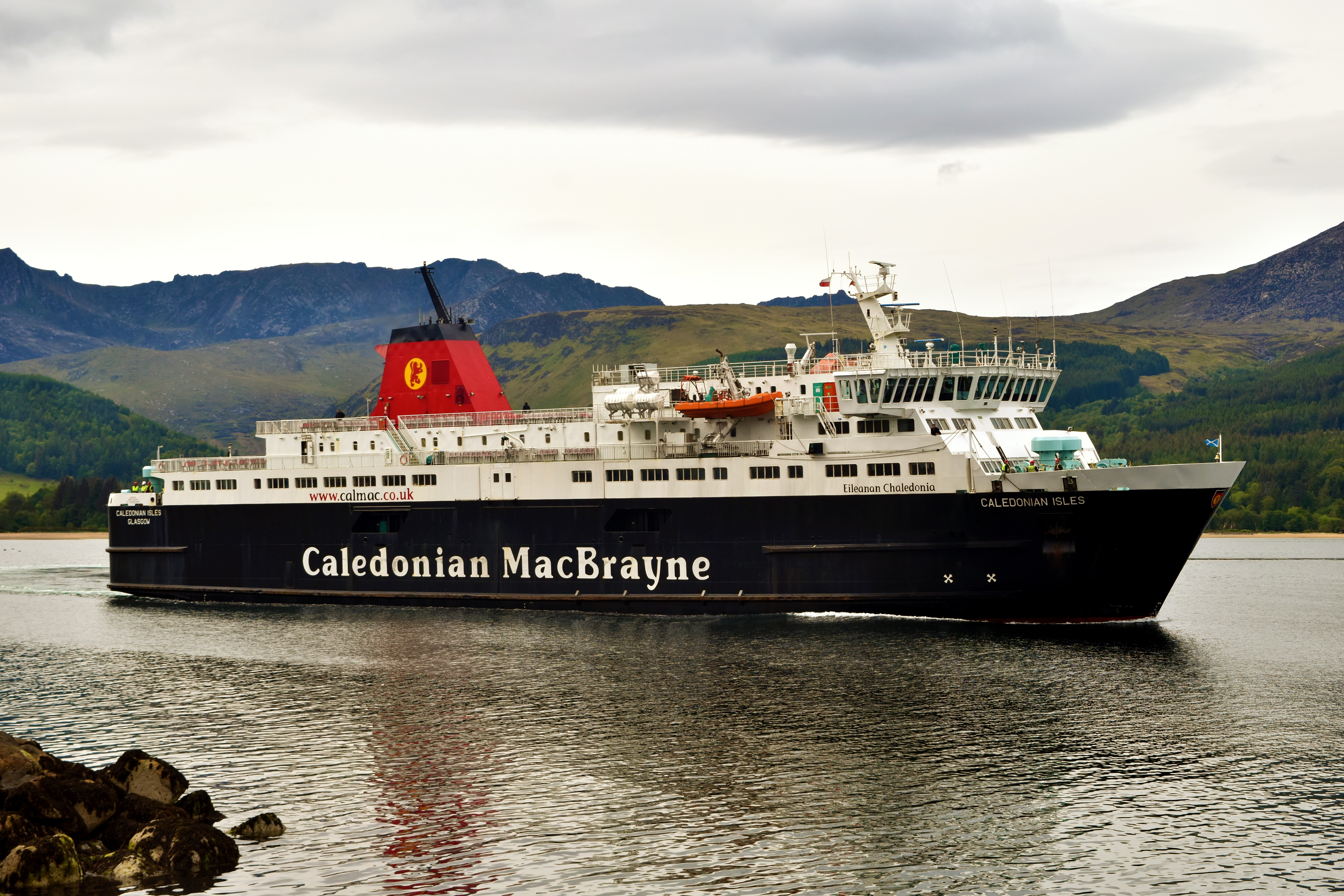 Caledonian MacBrayne ferry Caledonian Isles arriving at Brodick ferry terminal.